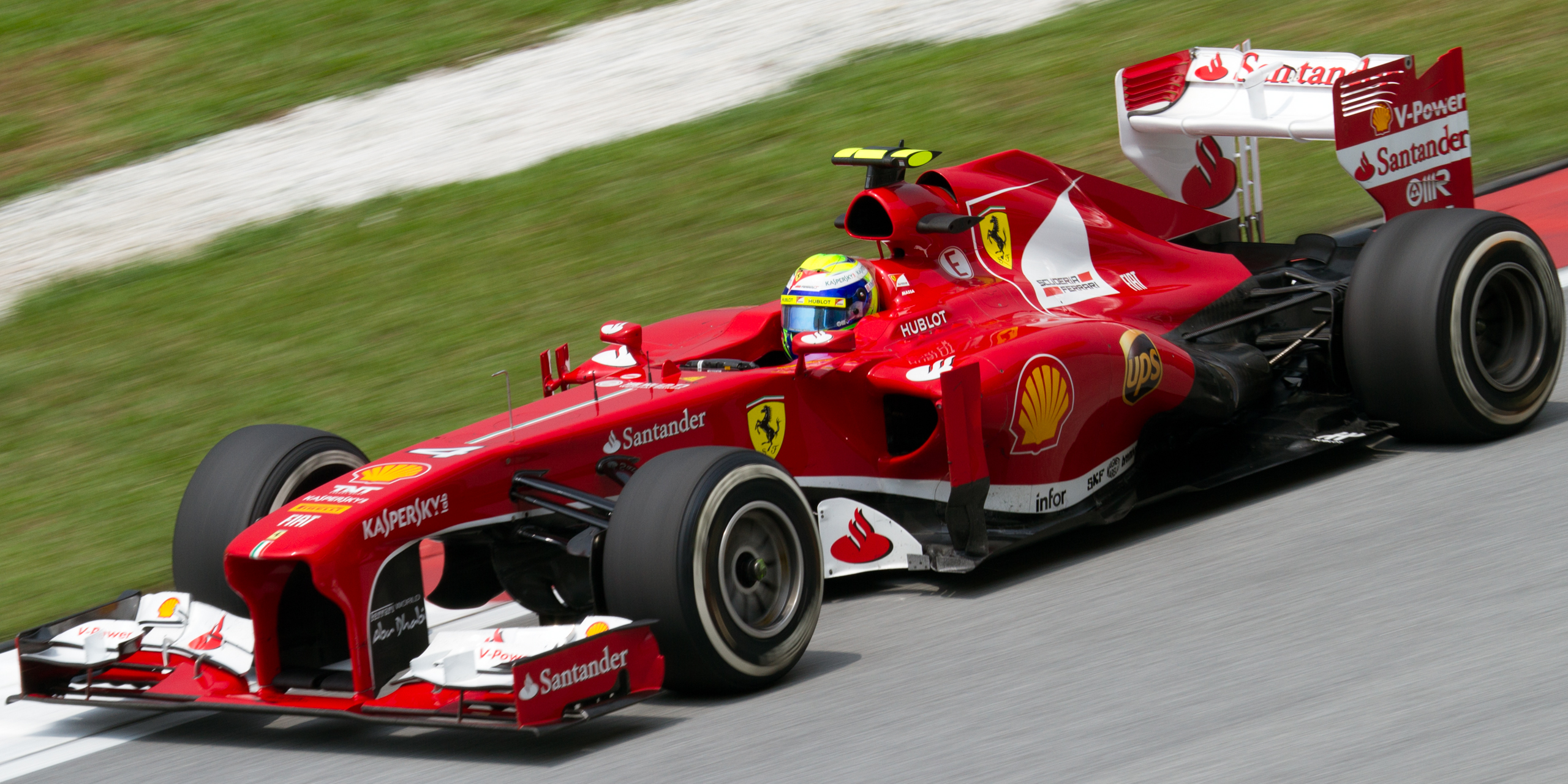 Formula One 2013 Rd.2 Malaysian GP: Felipe Massa (Scuderia Ferrari) during the second practice session on Friday.